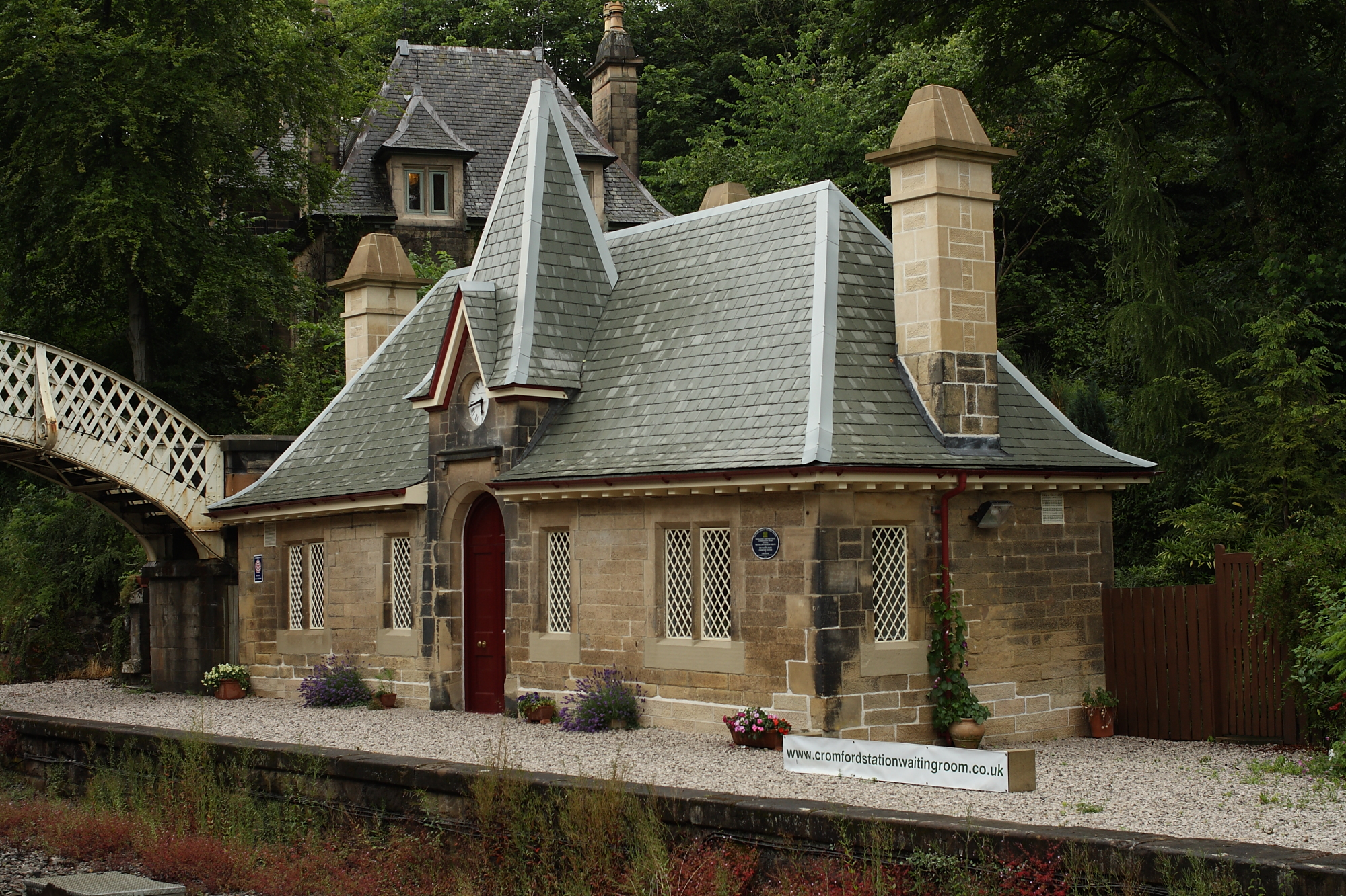 Now converted into a self catering holiday home